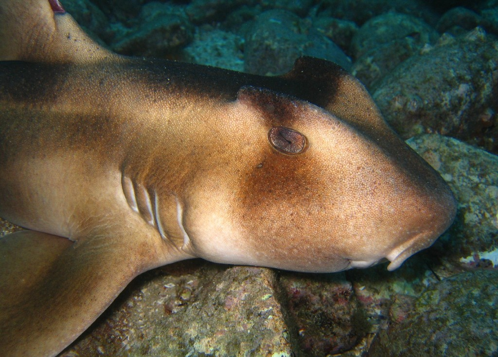 Portrait of a Crested Horn Shark (Heterodontus galeatus). Cabbage Tree Island, Port Stephens, NSW